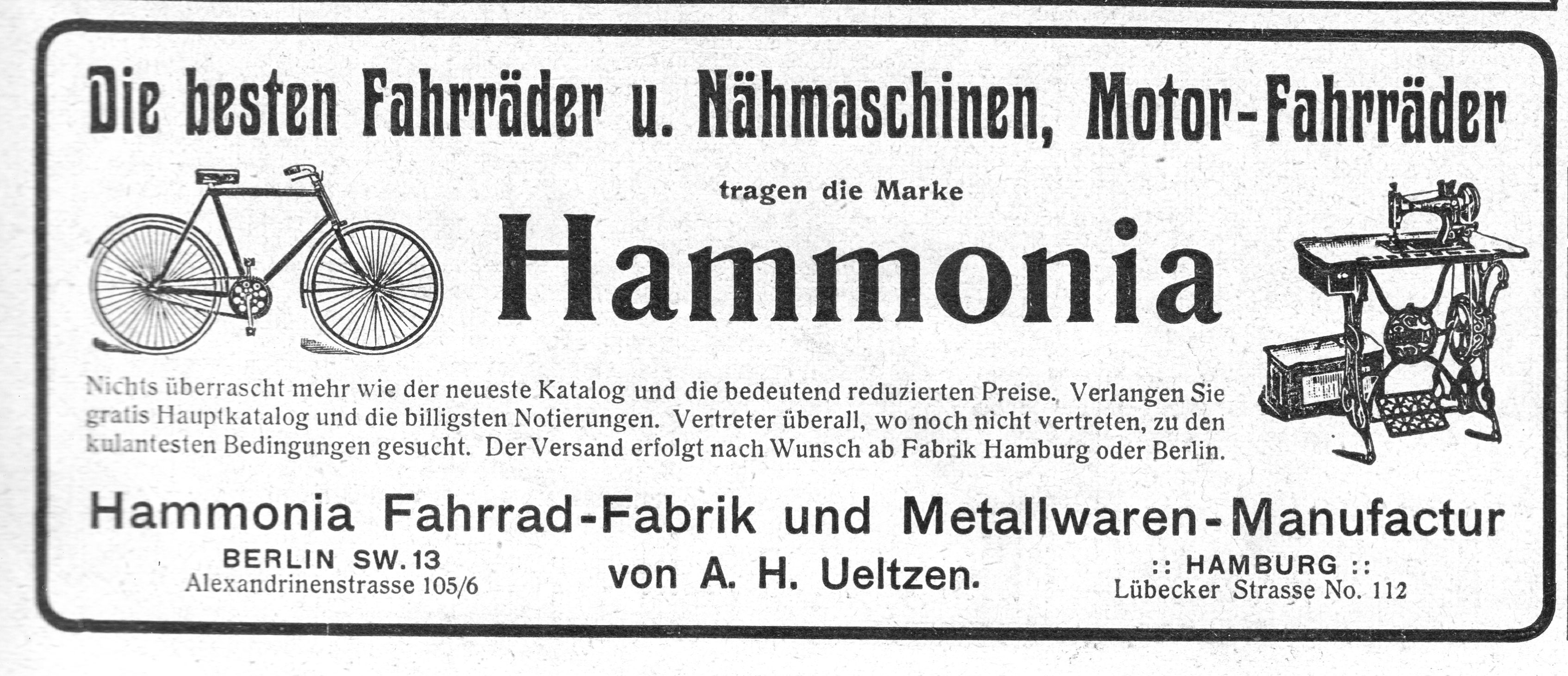 Advertisement of Hammonia Fahrrad-Fabrik und Metallwaren-Manufaktur von A. H. Ueltzen